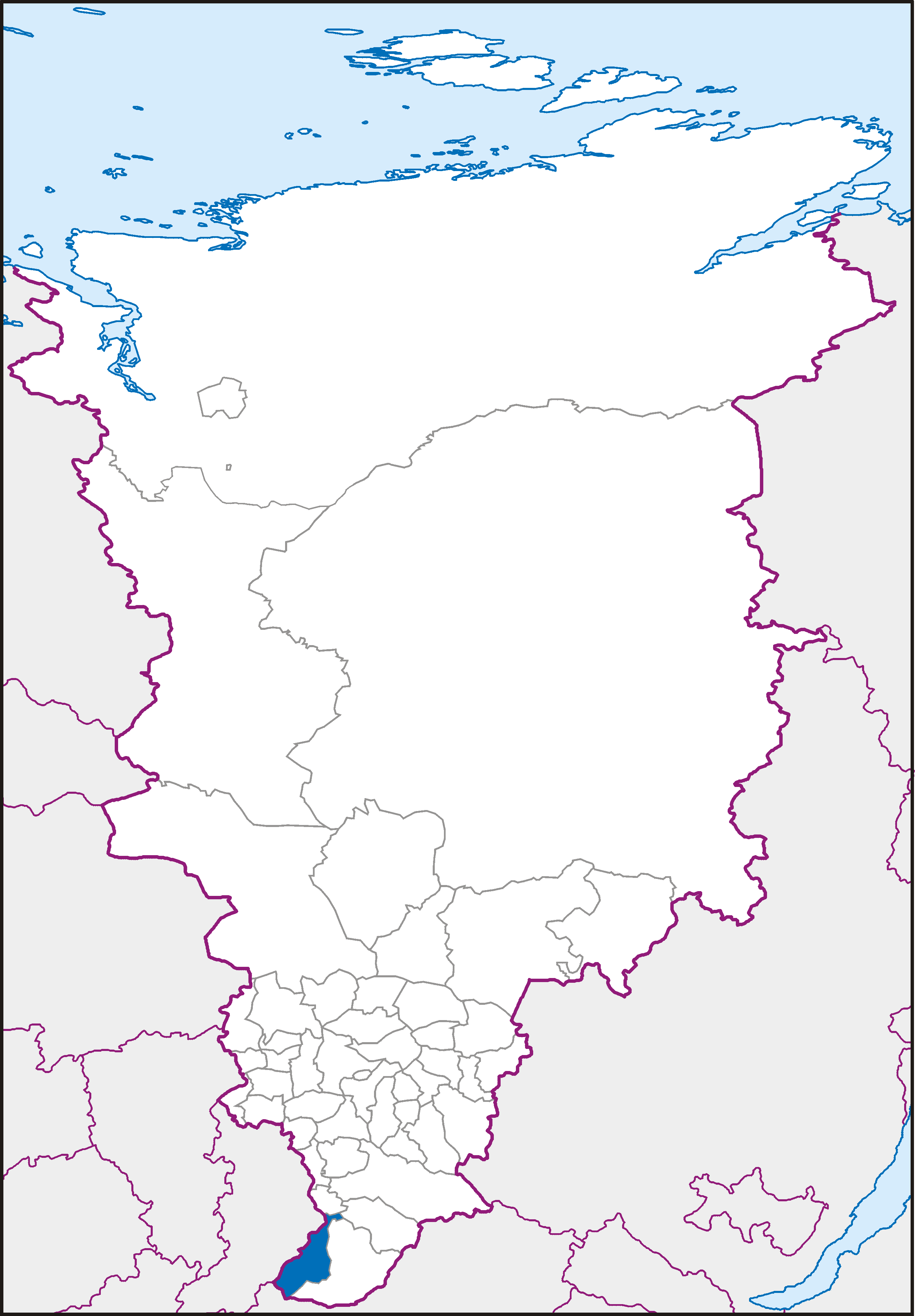 Map of Krasnoyarsk Krai in Albers Equal-Area Conic projection (Central Meridian = 95° E)